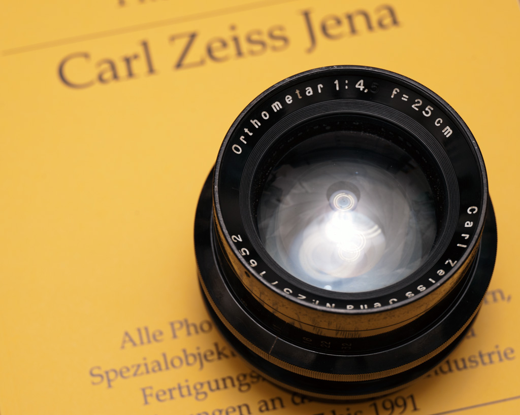 Carl Zeiss Jena Orthometar 1:4.5 f=25cm Nr2371652 (1938)